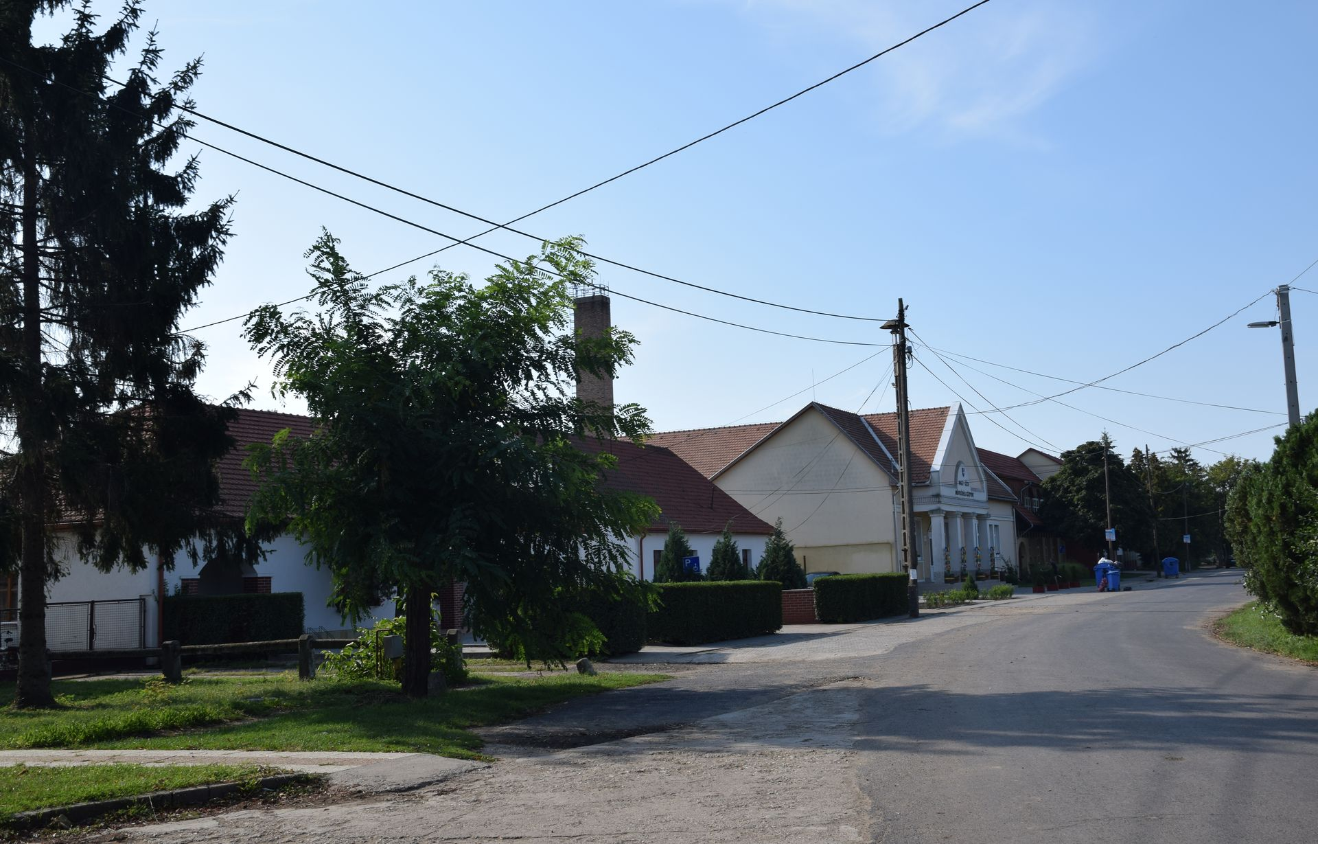 Karcsa, Szabadság utca